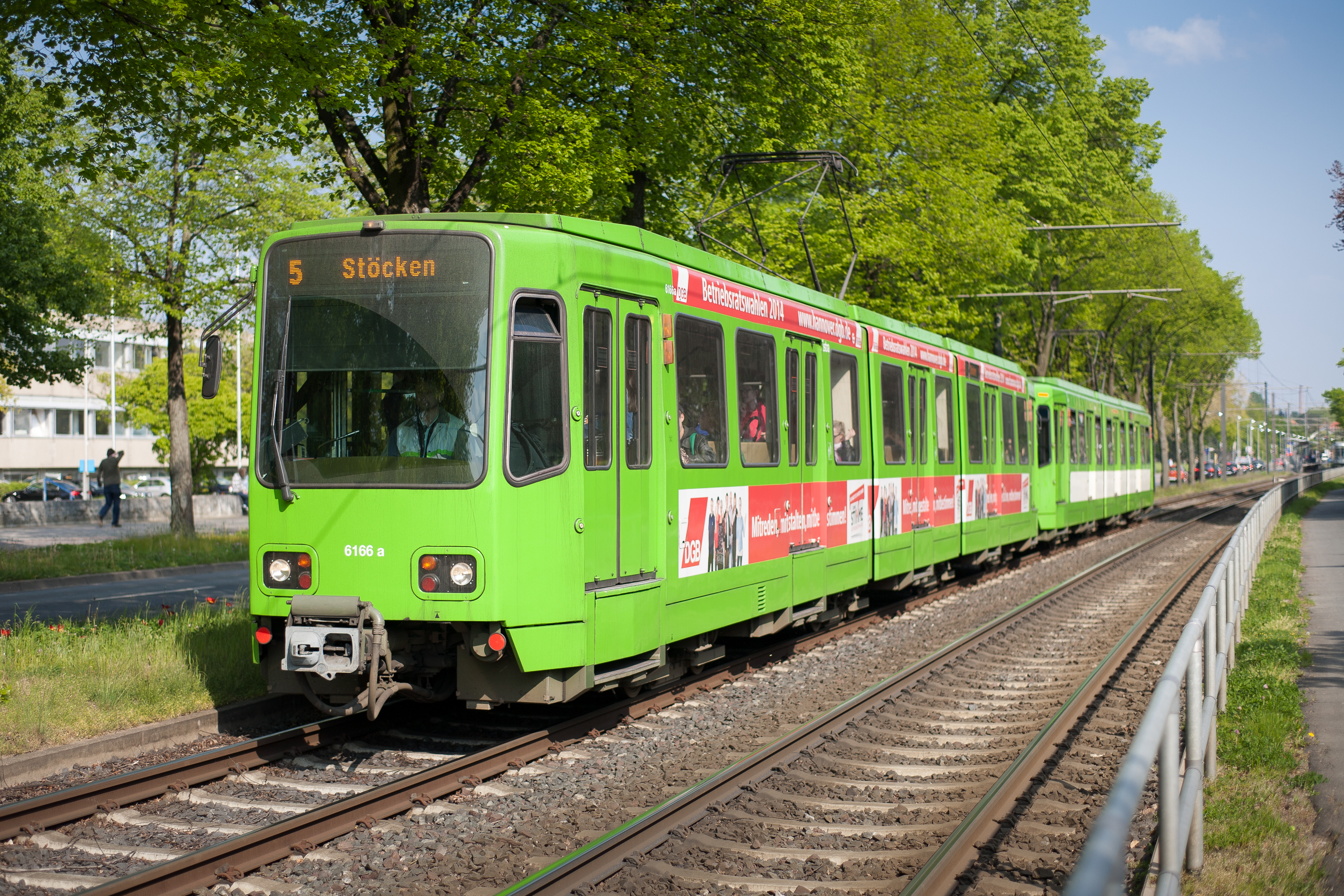 A TW 6000 train entering Schaumburgstrasse station en route to Stoecken. Hanover, Germany.